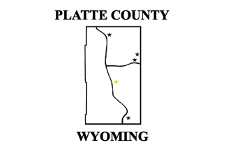 Platte County, Wyoming Flag